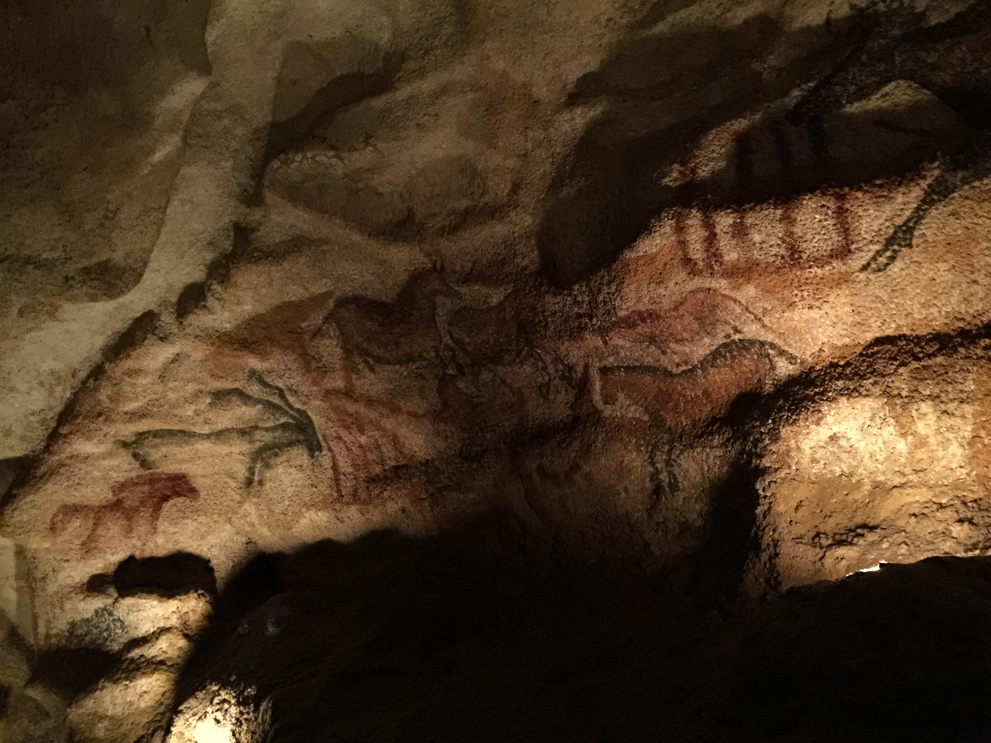 Inside the cave of Lascaux. Group of ibex and horses.